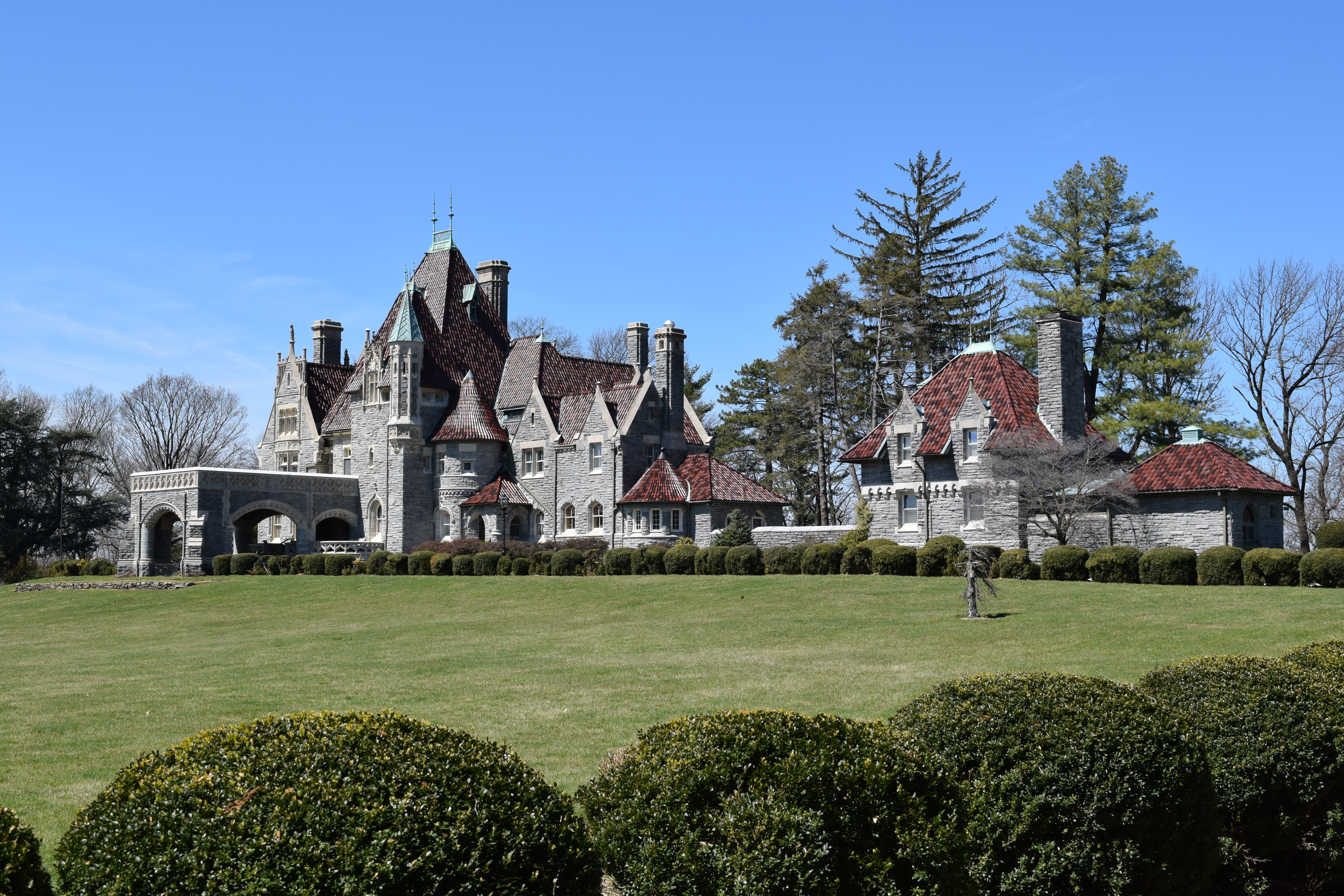 Woodmont (Gladwyne, Pennsylvania). Taken from one of the drives into the state. Shows the mansion's facade which faces south.